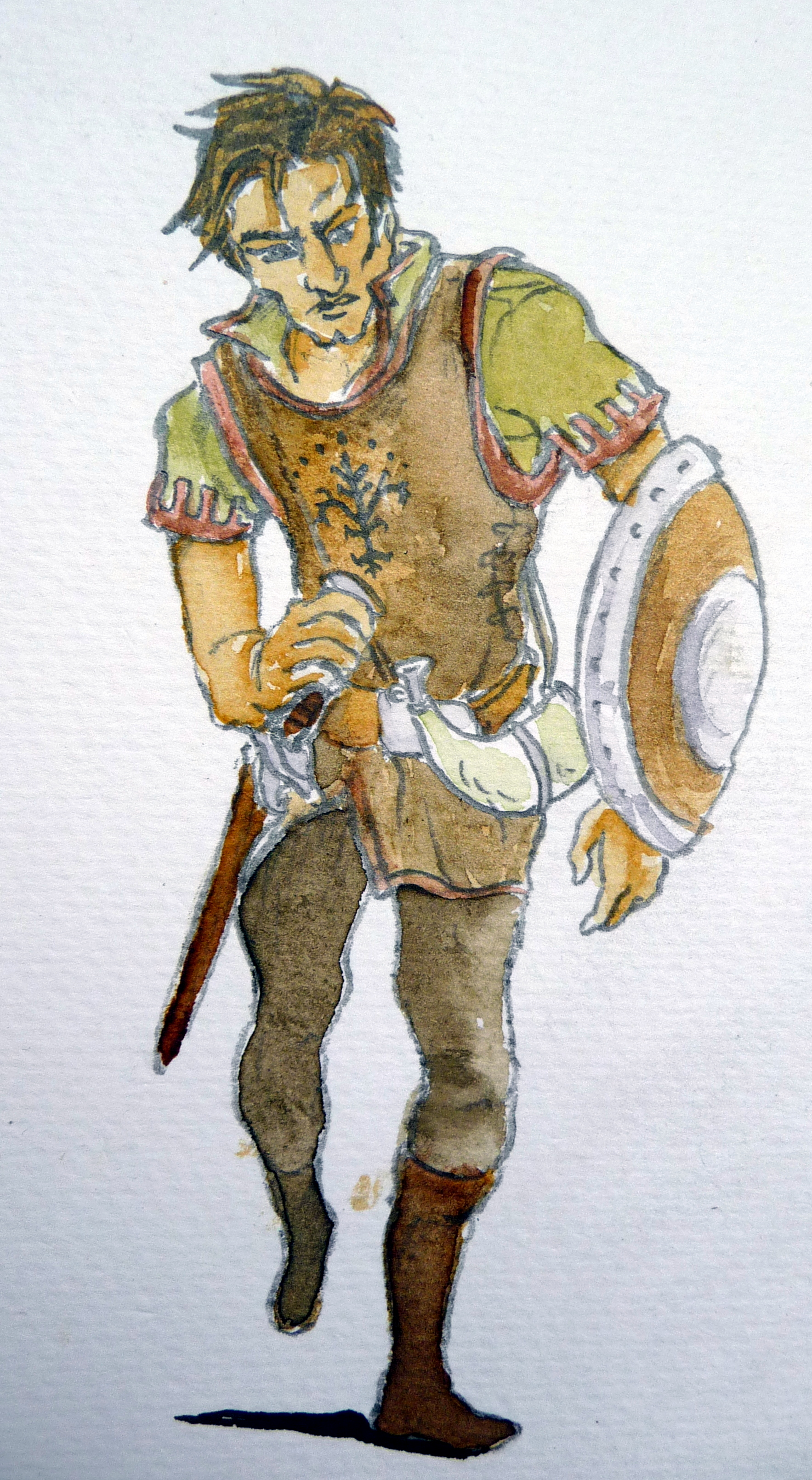 Boromir, son of Denethor II, commander in Gondor's army